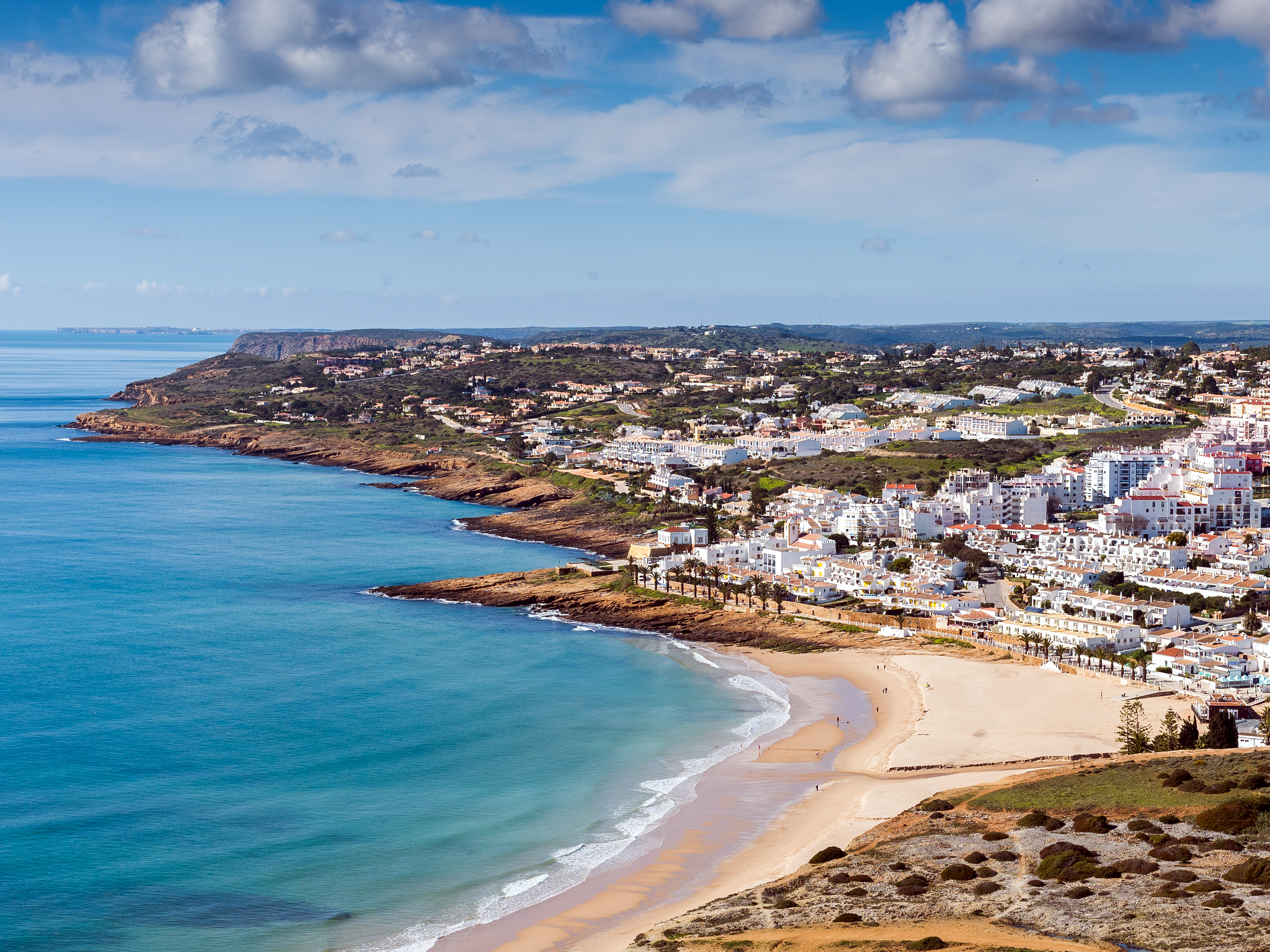 Praia da Luz Portugal February 2015